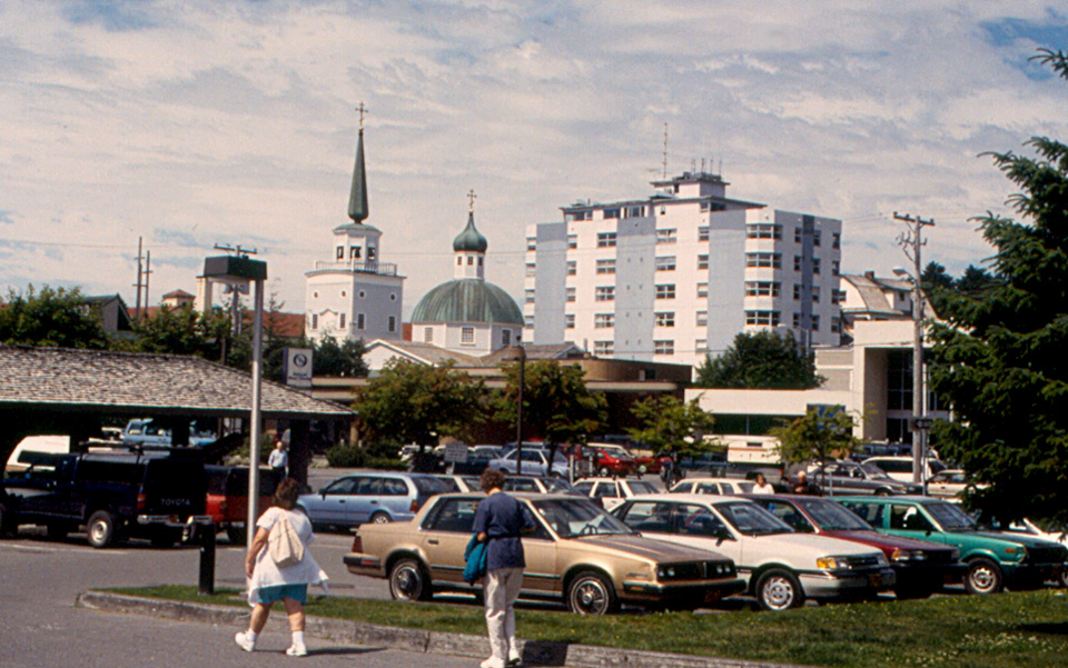 Our first view of Sitka, walking toward downtown, near the Centennial Building at the cruise ship tender port. The two spires are St. Michael's Russian Orthodox Cathedral.